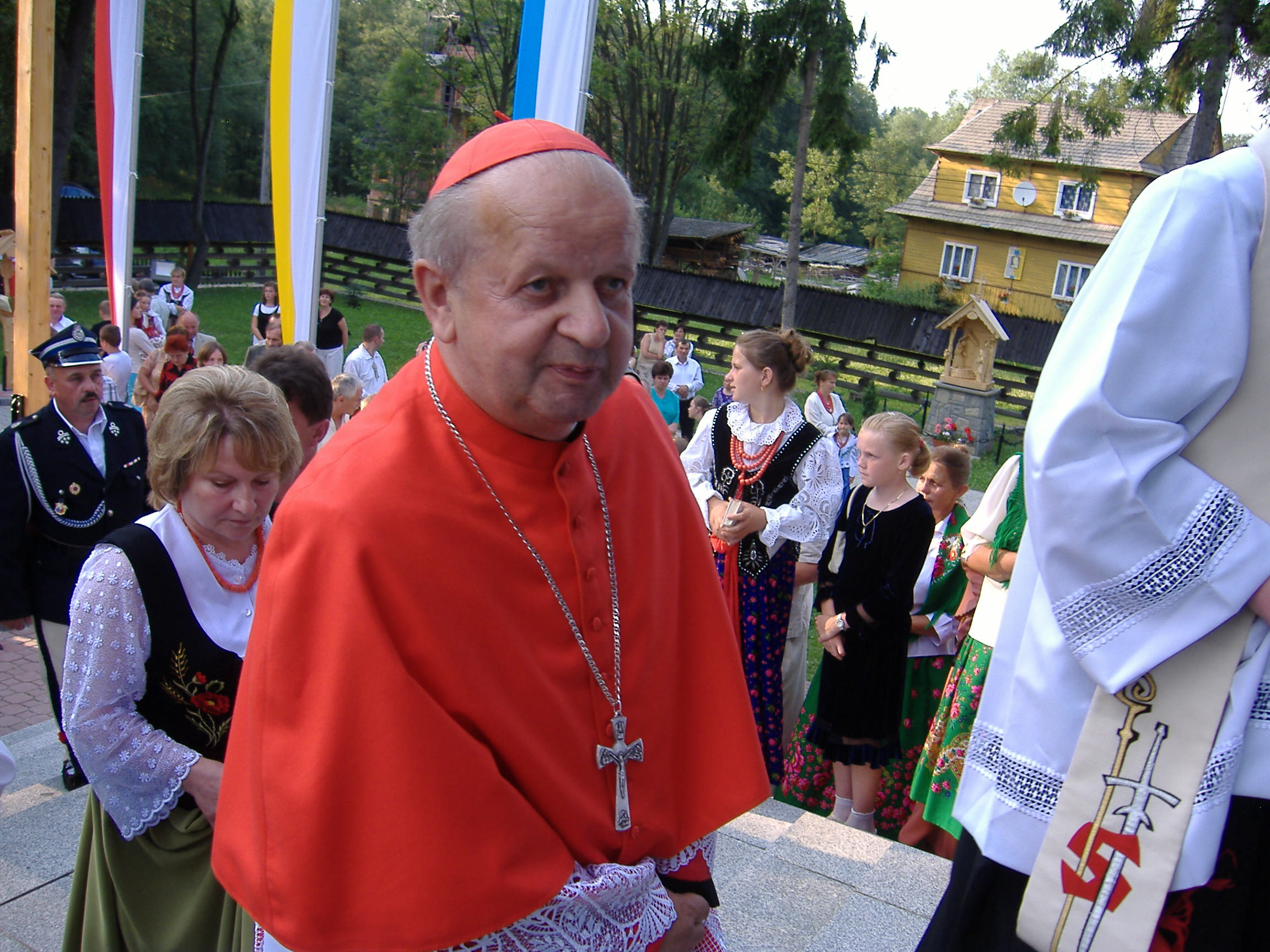 His Eminence Stanisław Cardinal Dziwisz (born April 27, 1939 in Raba Wyżna), is a Polish prelate of the Roman Catholic Church.